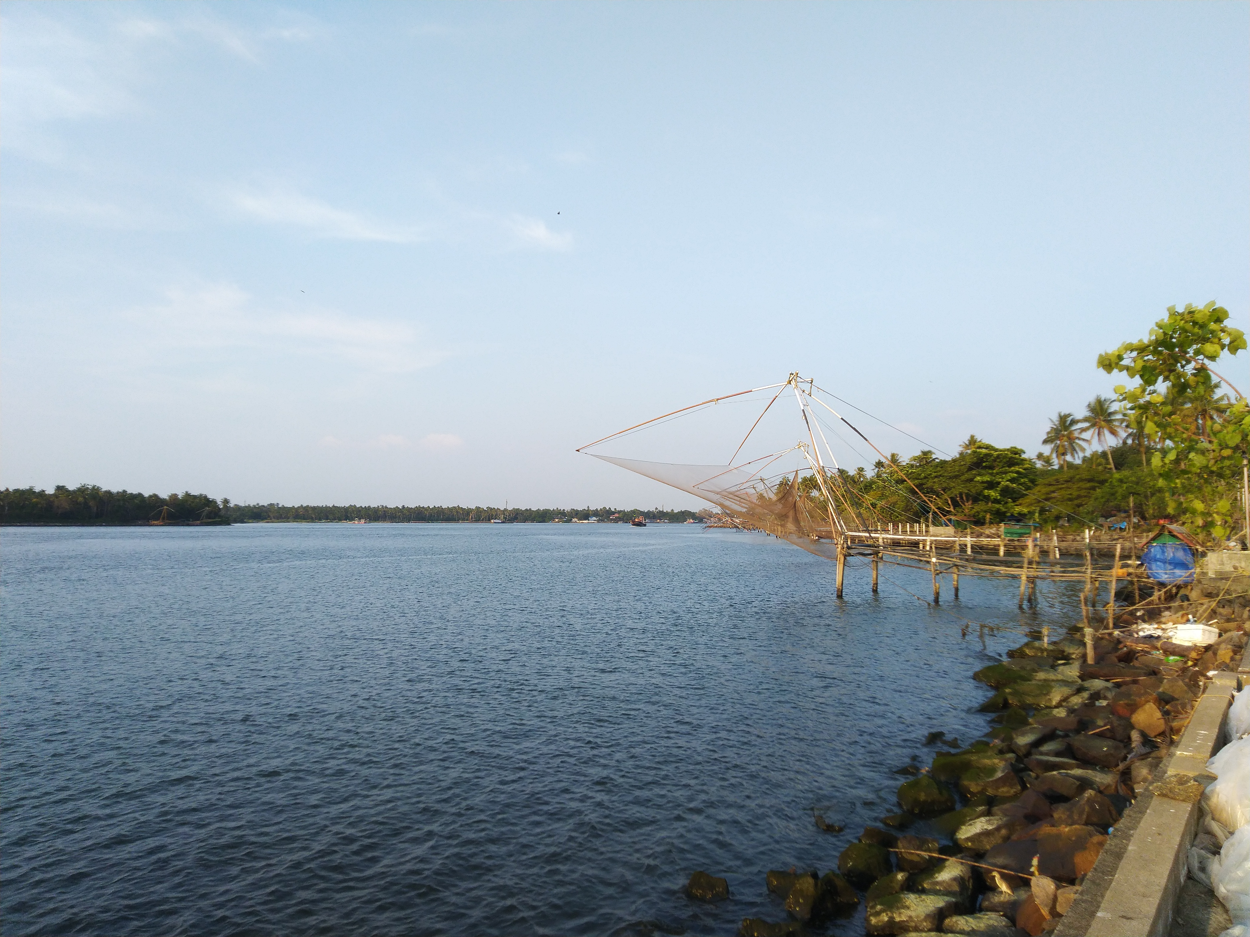 Chinese fishing nets munambam beach